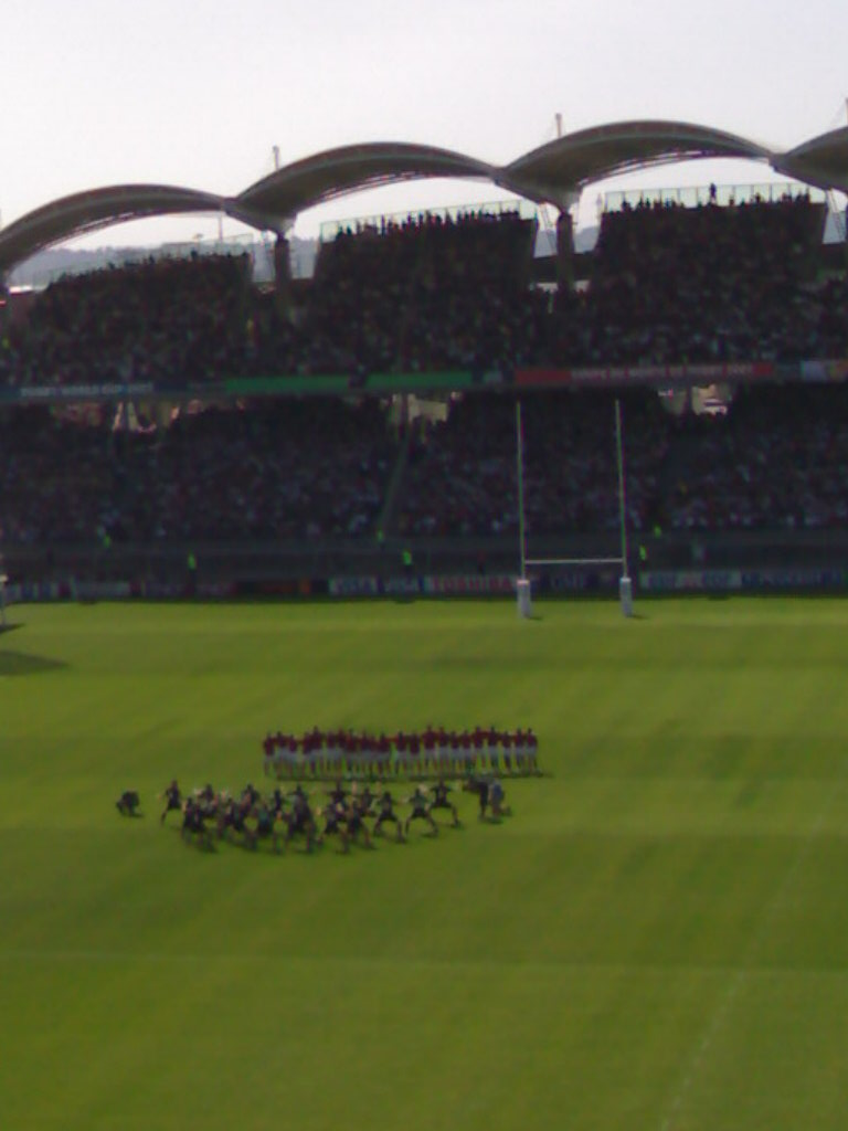 New Zealand haka in front of Portuguese